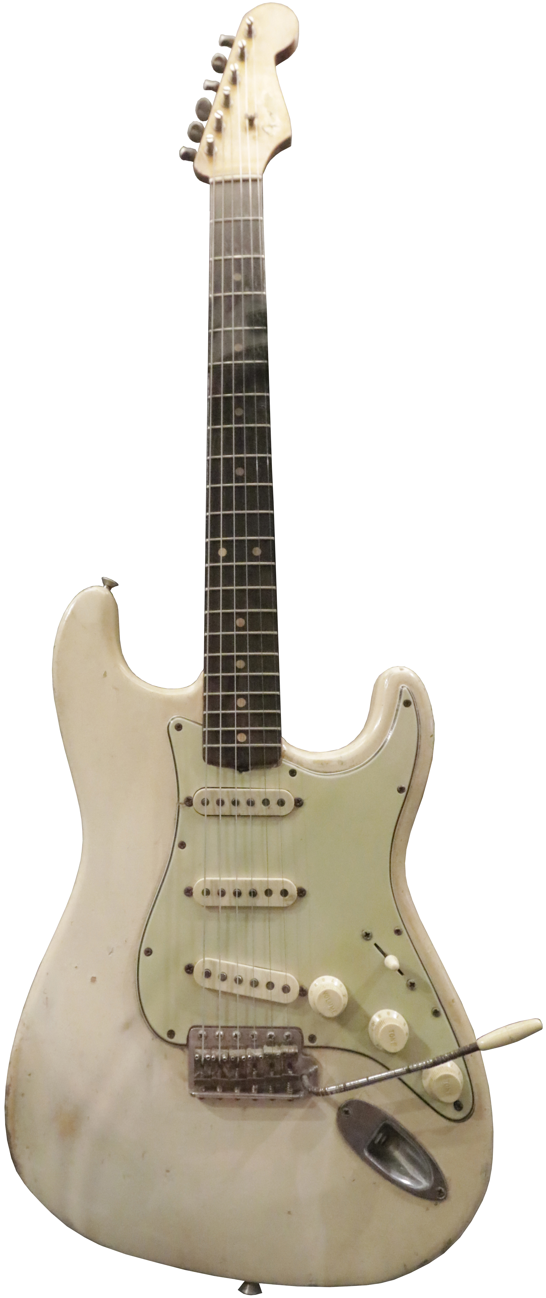 Howlin' Wolf's 1963 Fender Stratocaster (Rock and Roll Hall of Fame, Cleveland, OH).